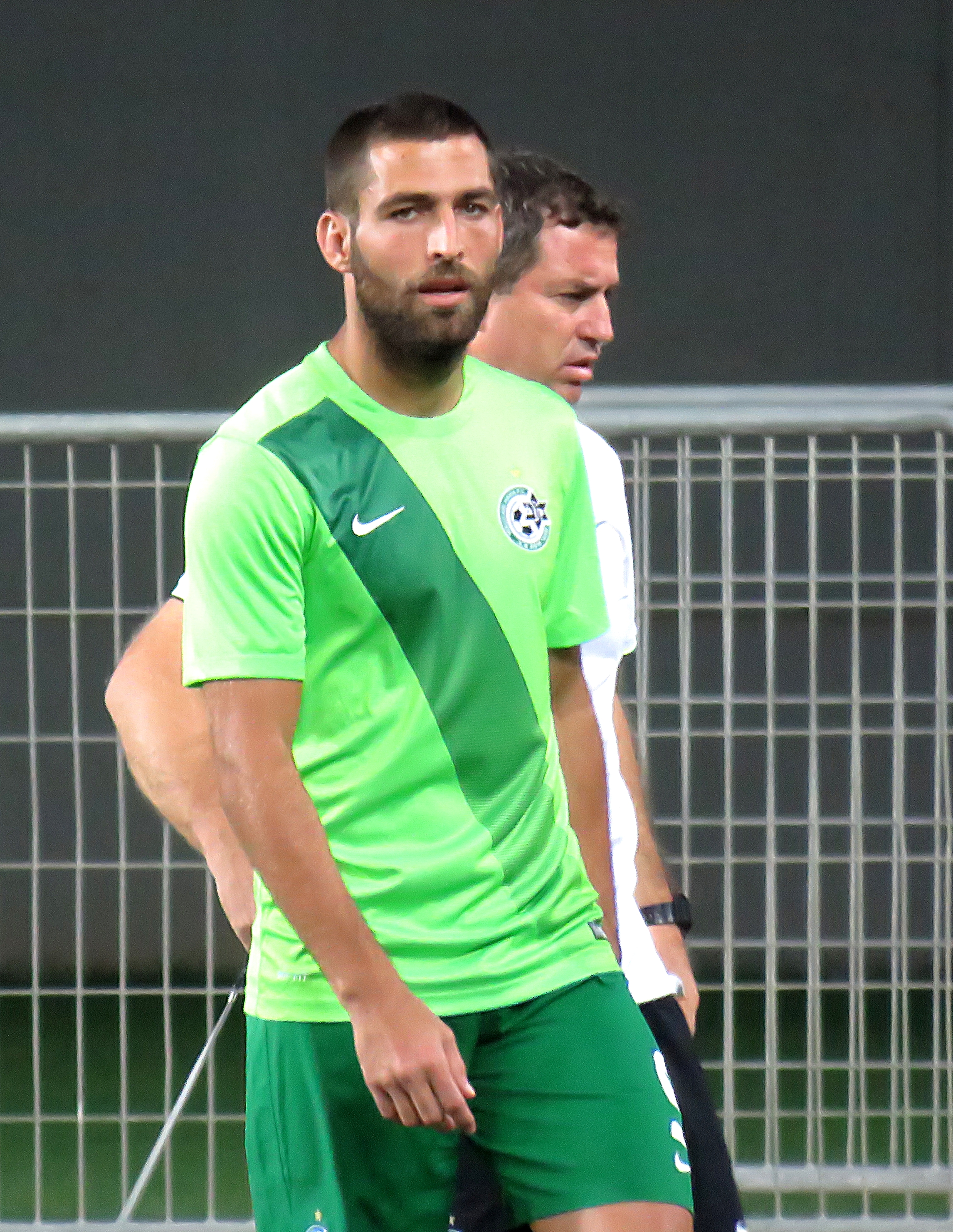 Hapoel Ra'anana vs. Maccabi Haifa F.C., 3 October, 2015